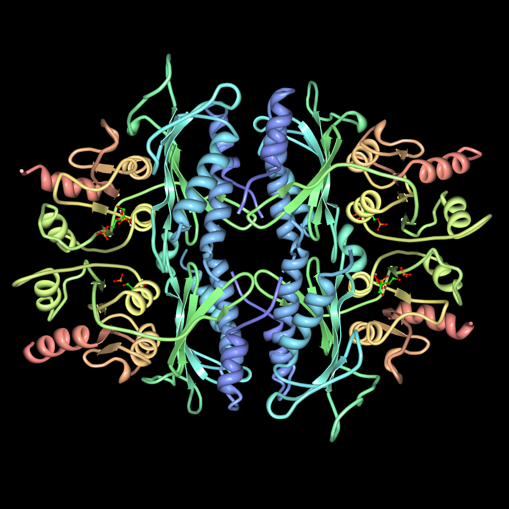 Structure refinement of fructose-1,6-bisphosphatase and its fructose 2,6-bisphosphate complex at 2.8 A resolution. Ke, H.M., Thorpe, C.M., Seaton, B., Lipscomb, W.N., Marcus, F.